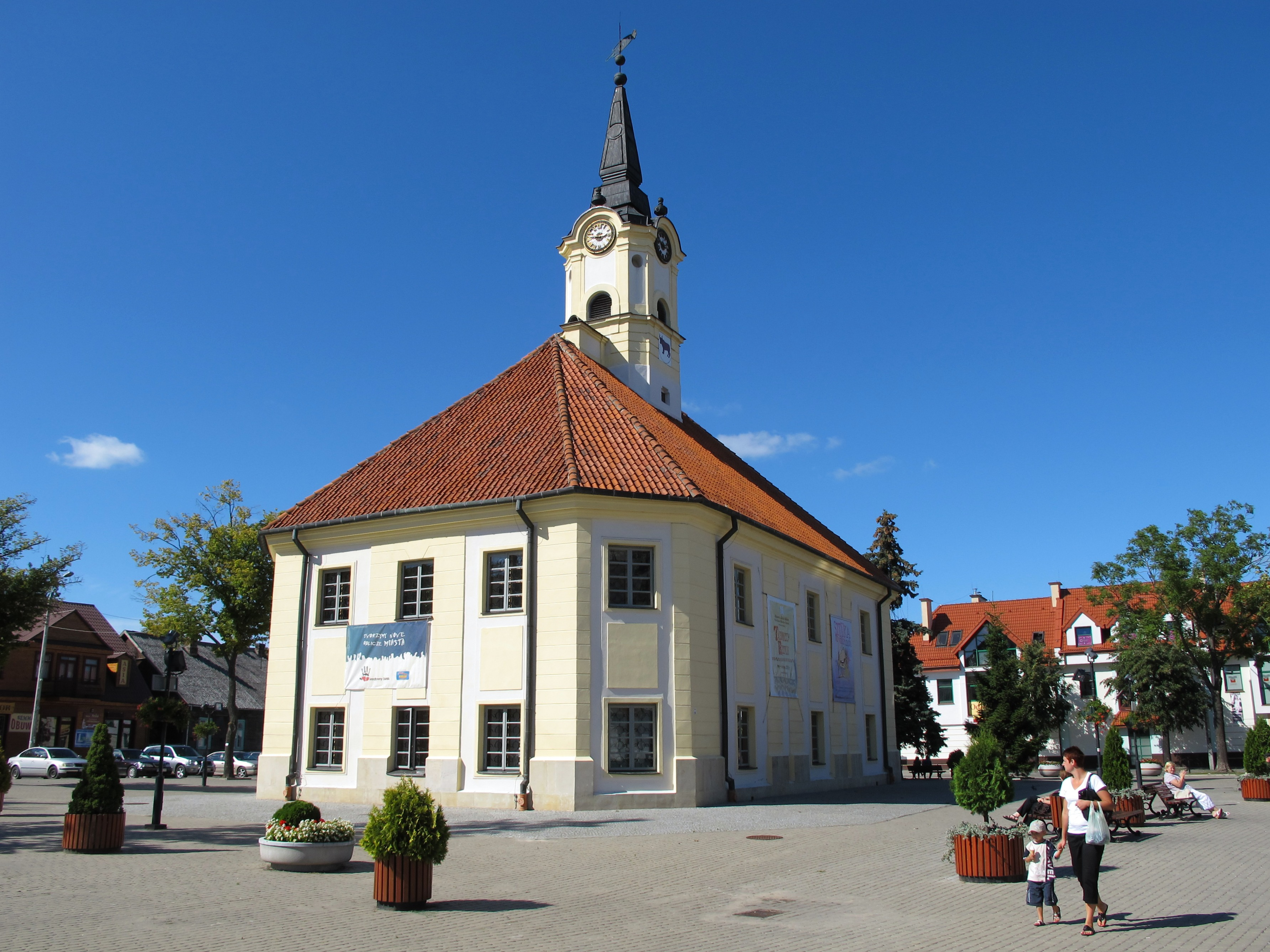 Town hall by Mickiewicza 45 in Bielsk Podlaski, gmina Bielsk Podlaski, podlaskie, Poland.